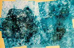 Aerial view of the sunken wreckage of the schooner Alligator, a vessel of the United States Navy that sank in 1822 off what is now Islamodora in Monroe County, Florida, United States. The shipwreck site is listed on the National Register of Historic Places.